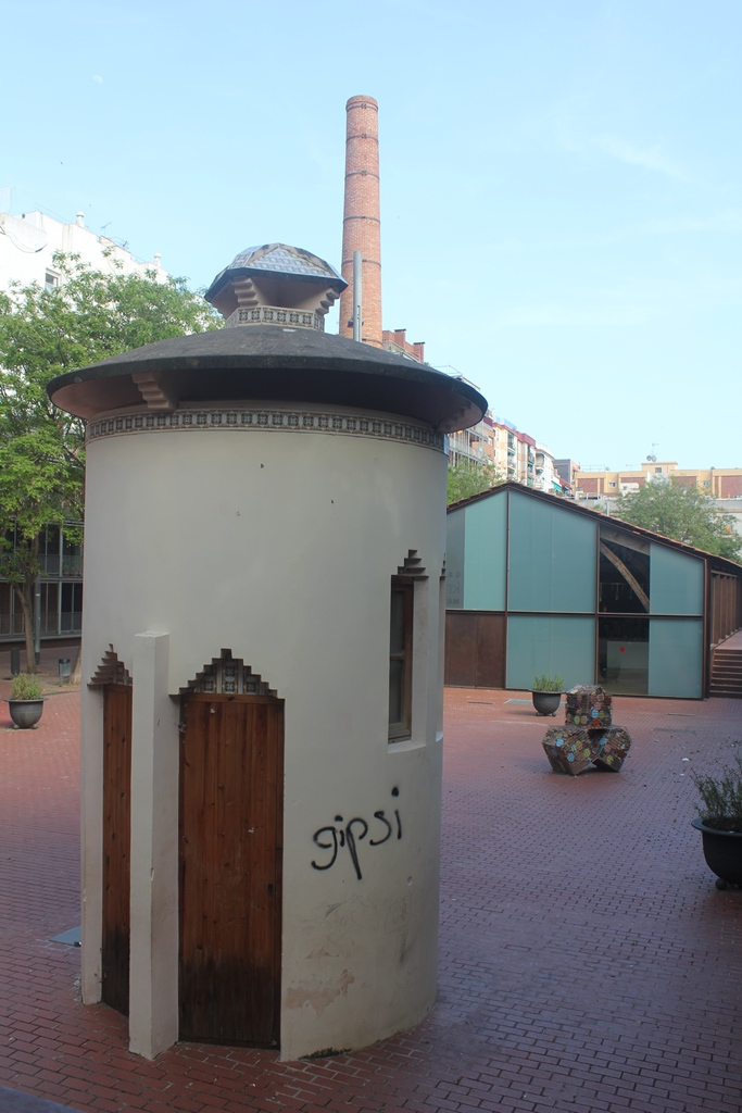 Nau Gaudí lavabos